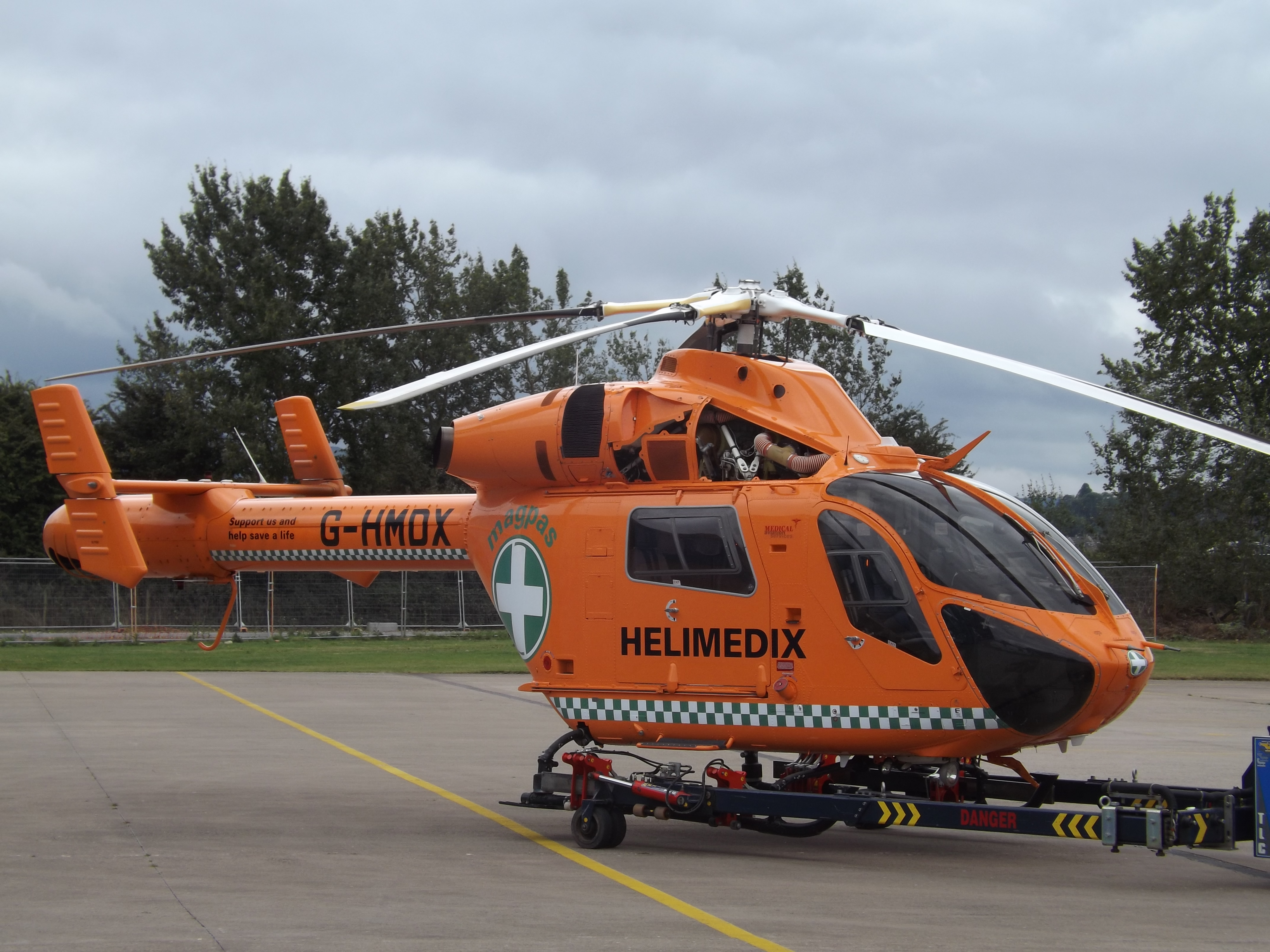 At Gloucestershire Airport.